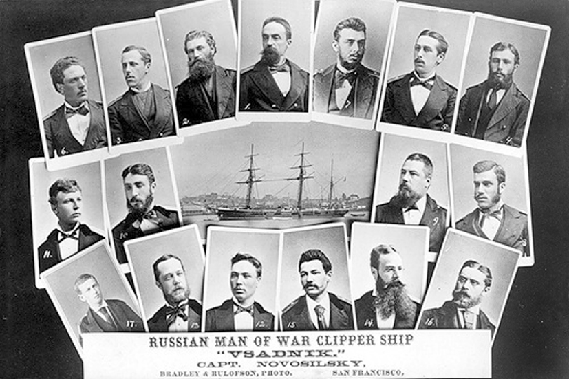 Russian man of war clipper ship Vsadnik, San Francisco